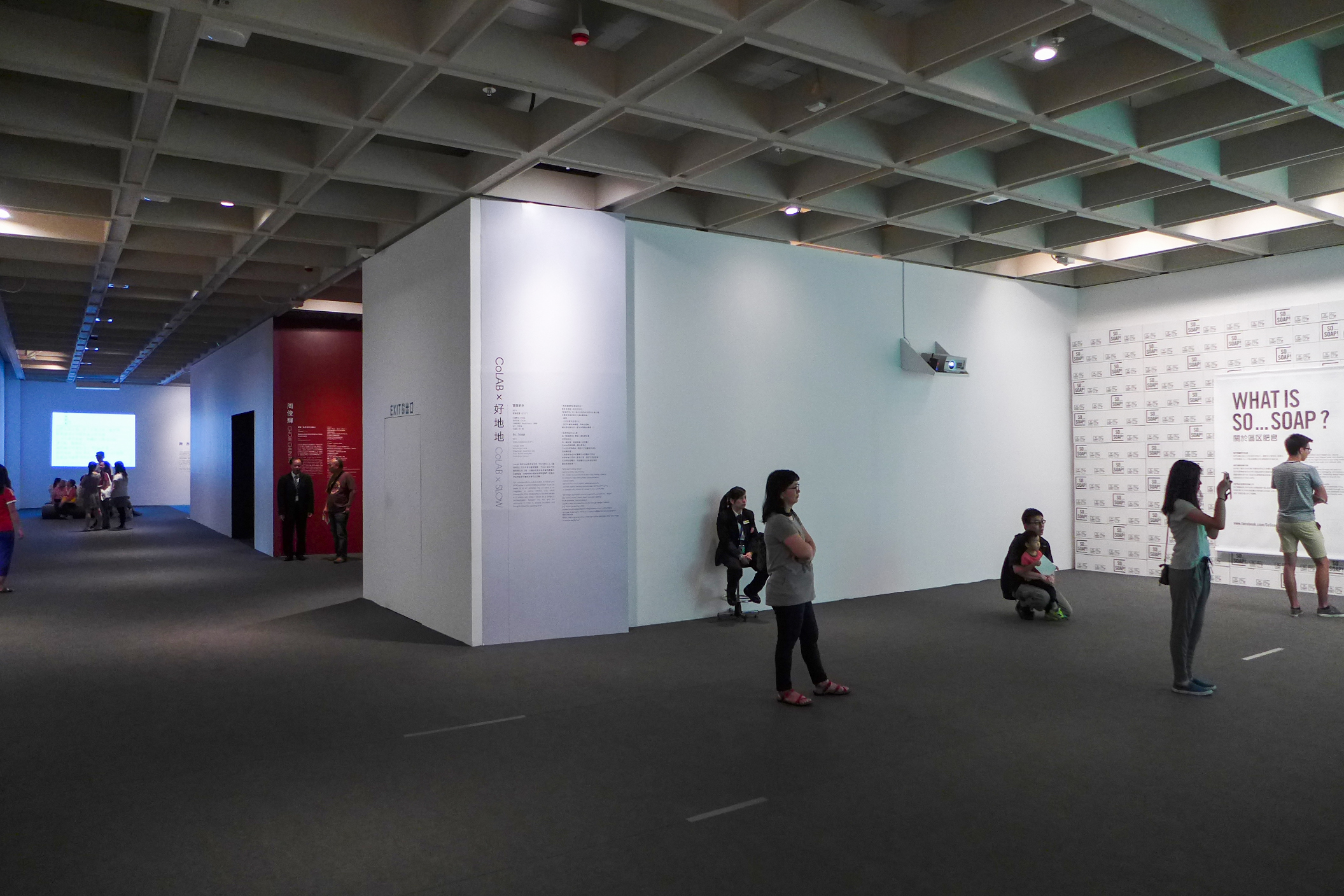 Hong Kong Museum of Art Exhibit